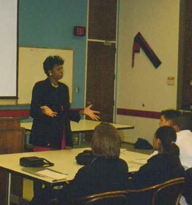 Muriel Howard Speaking at MOOG Leadership Weekend, Elma, NY, 2000